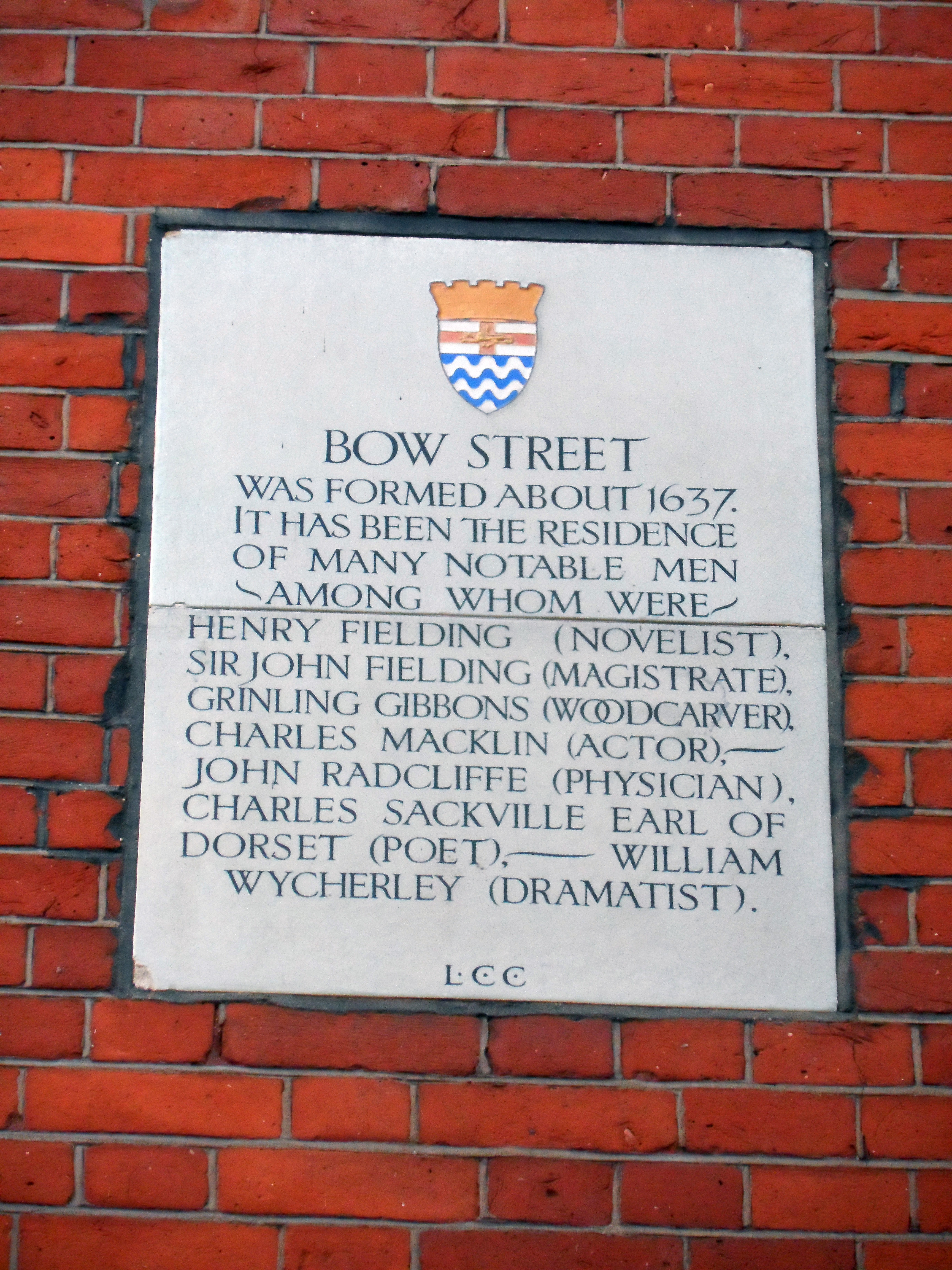 19-20 Bow Street, Westminster, WC2, London, United Kingdom